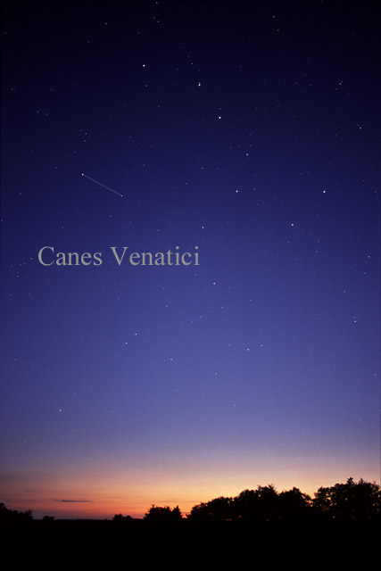 Photography of the constellation Canes Venatici, the hunting dogs